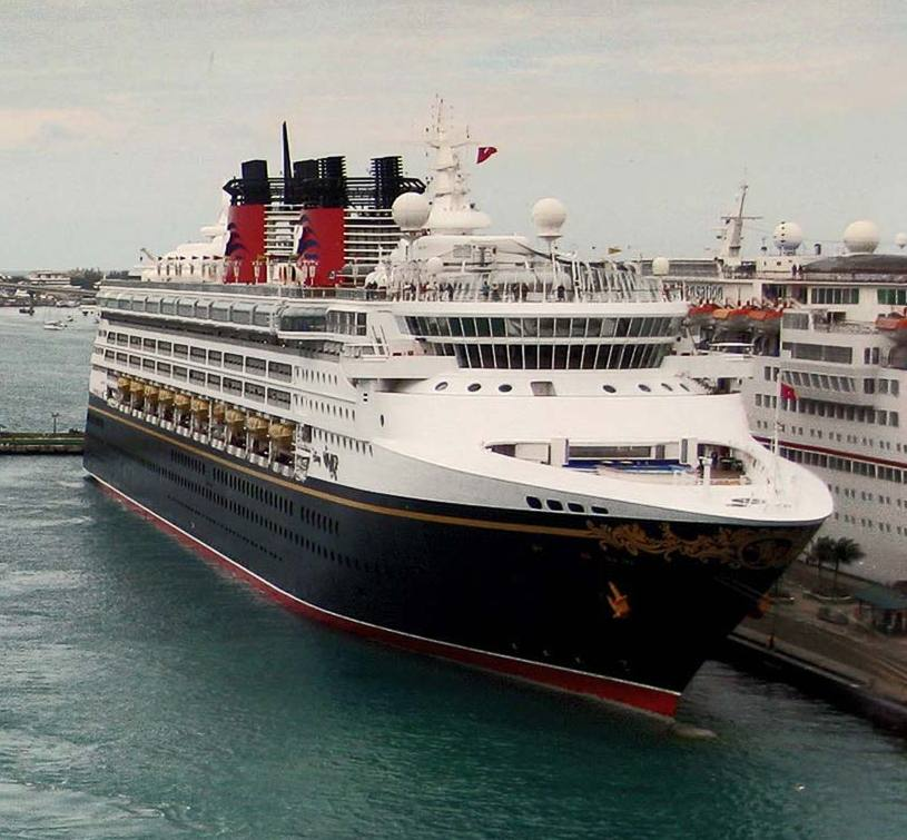 A panoramic view of Prince George Wharf, the facility serving passenger cruise ships in Nassau Harbour, off the island of New Providence in the Bahamas. Seen docked along the wharf, left to right, are the MS Carnival Fascination, MS Disney Wonder, MS Carnival Sensation, and Royal Caribbean International's MS Majesty Of The Seas.